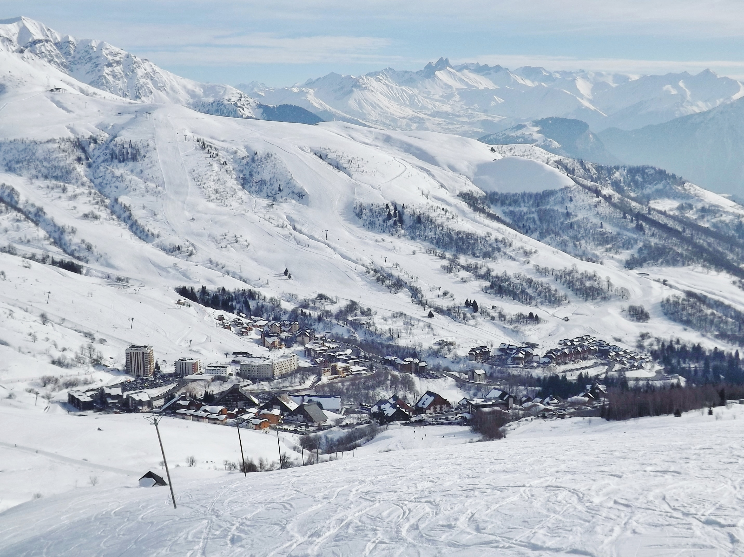 Panoramic sight, from the slopes, of Saint-François-Longchamp - Montgellafrey ski resort villages, in Savoie, France.